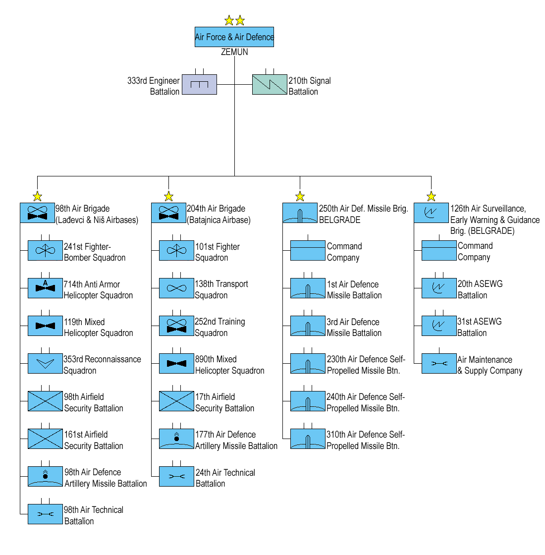 Structure of the Air Forces of Serbia 2007